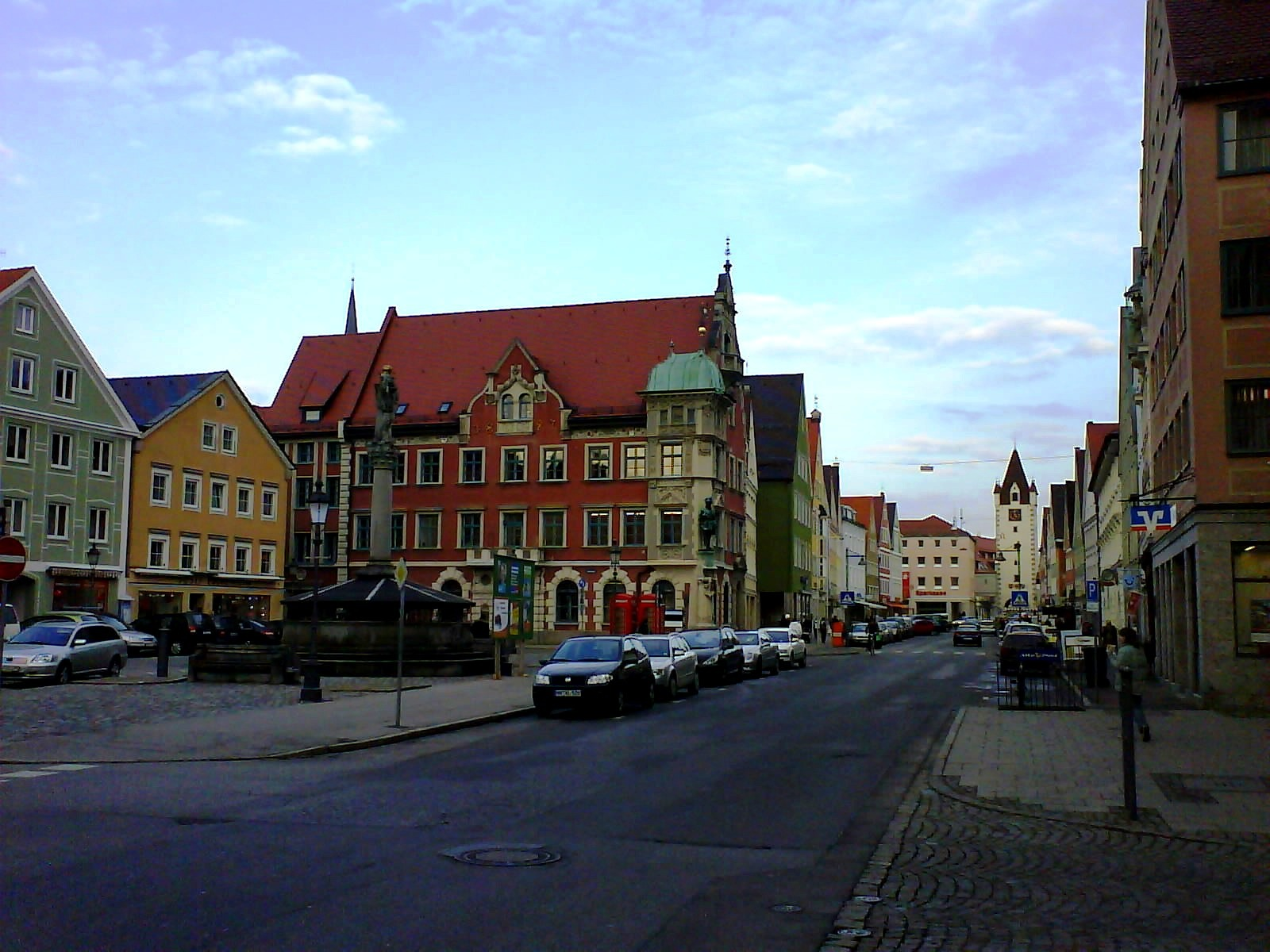 Market Square of Mindelheim